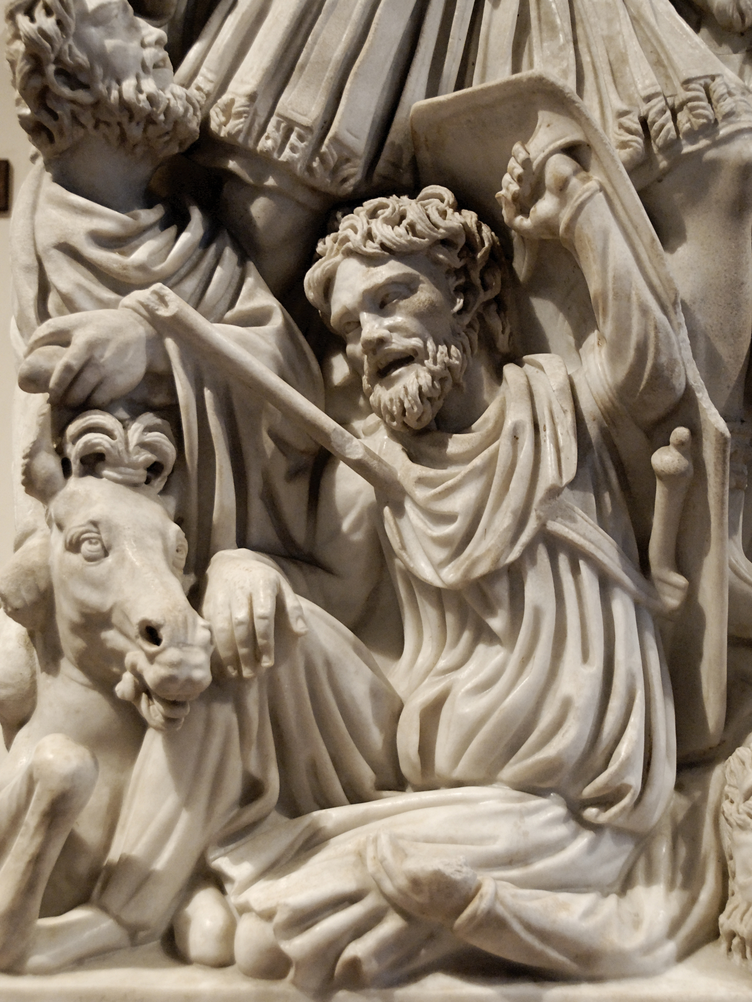 Vanquished Barbarian. Detail of the so-called “Grande Ludovisi” sarcophagus, with battle scene between Roman soldiers and Germans. Proconnesian marble, Roman artwork, ca. 251/252 CE. Found in 1621 near the Tiburtina Gate in Rome.